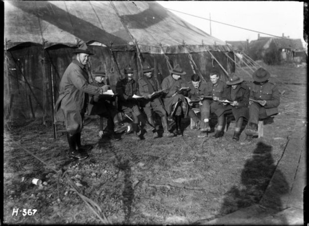 Henry Armytage Sanders, shadow self-portrait, WWI.